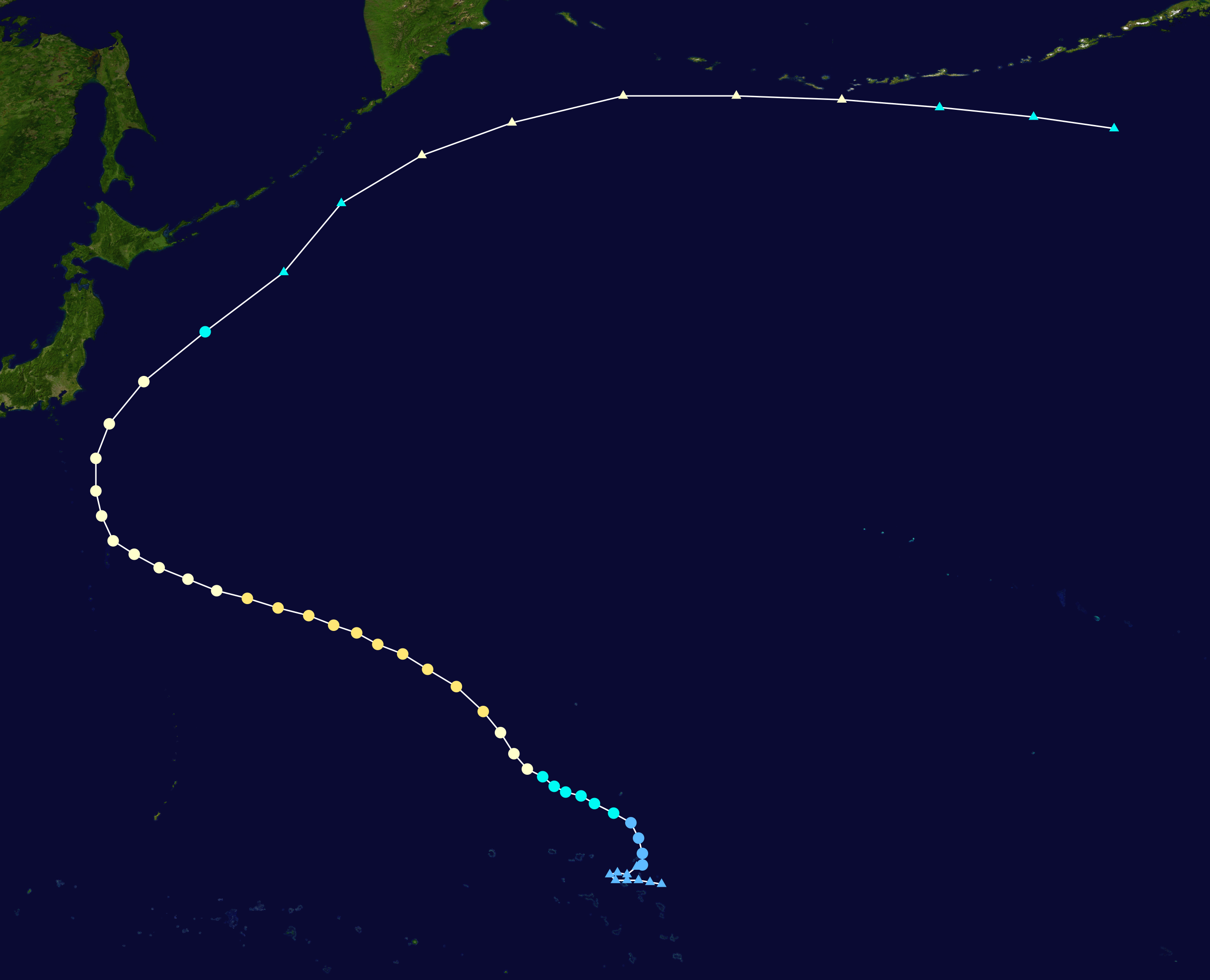 Typhoon David 1997 track. Uses the color scheme from the Saffir-Simpson Hurricane Scale.